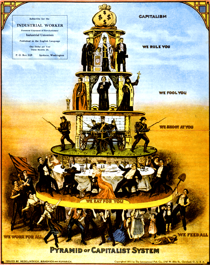 A capitalism's social pyramid